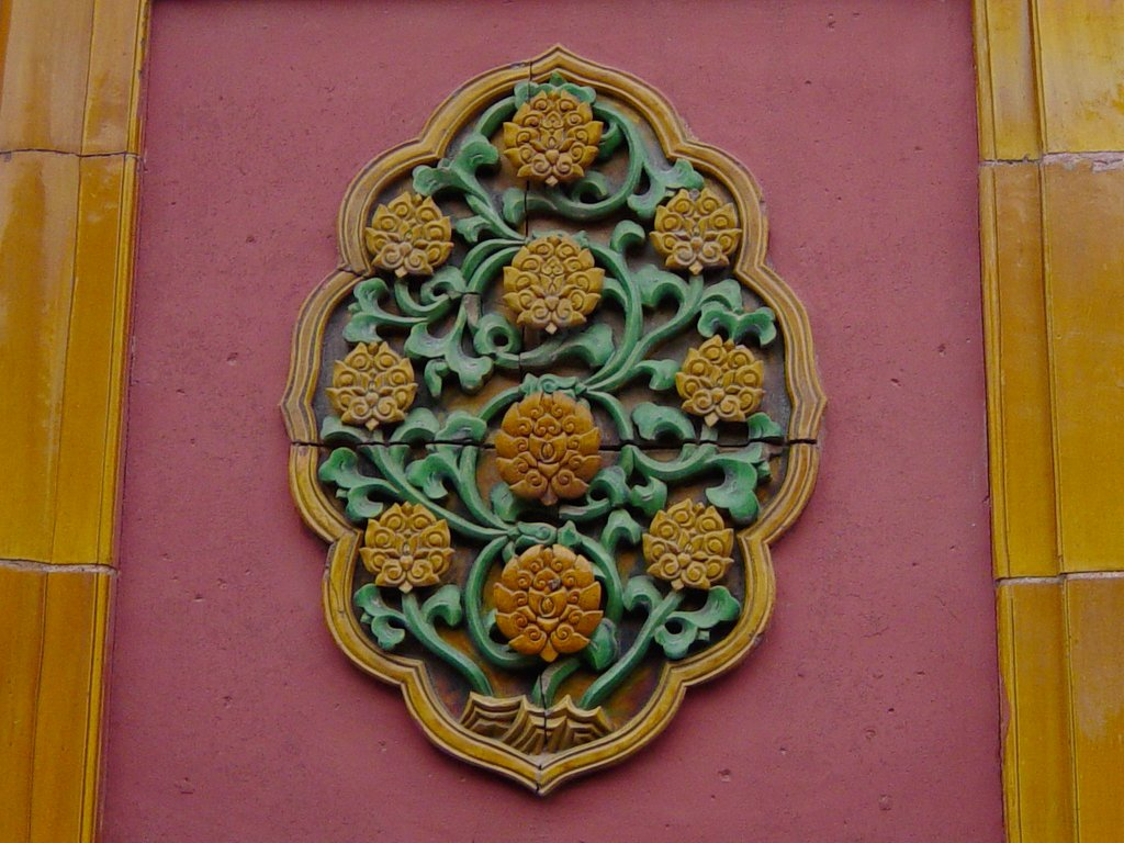 Ceramic building decoration at the Forbidden City, Beijing, China. Image by User:Leonard G.